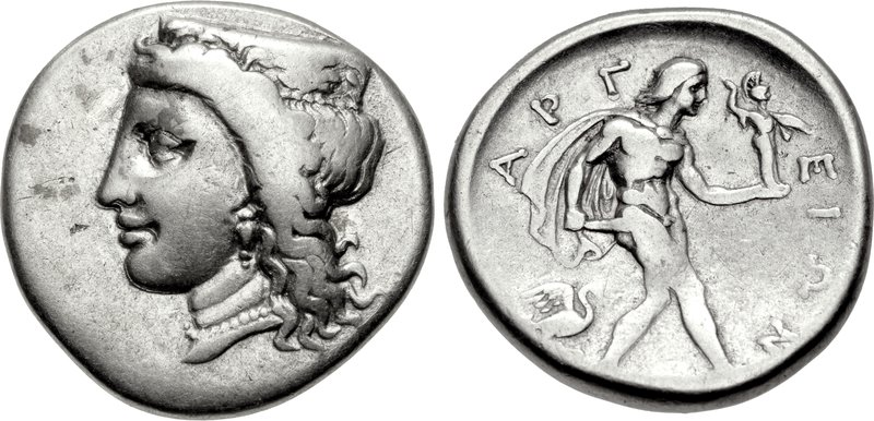 Argos. Circa 370-350 BC. AR Drachm (20mm, 5.51 g, 5h). Head of Hera left, wearing polos ornamented with palmettes, single-pendant earring, and pearl necklace / Diomedes, nude but for chlamys tied around neck, advancing right, holding dagger and Palladion; to left, at feet, swan standing right.